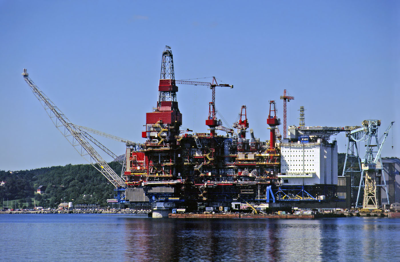 The Statoil production platform 'Gullfaks A' being completed near Haugesund in Norway.